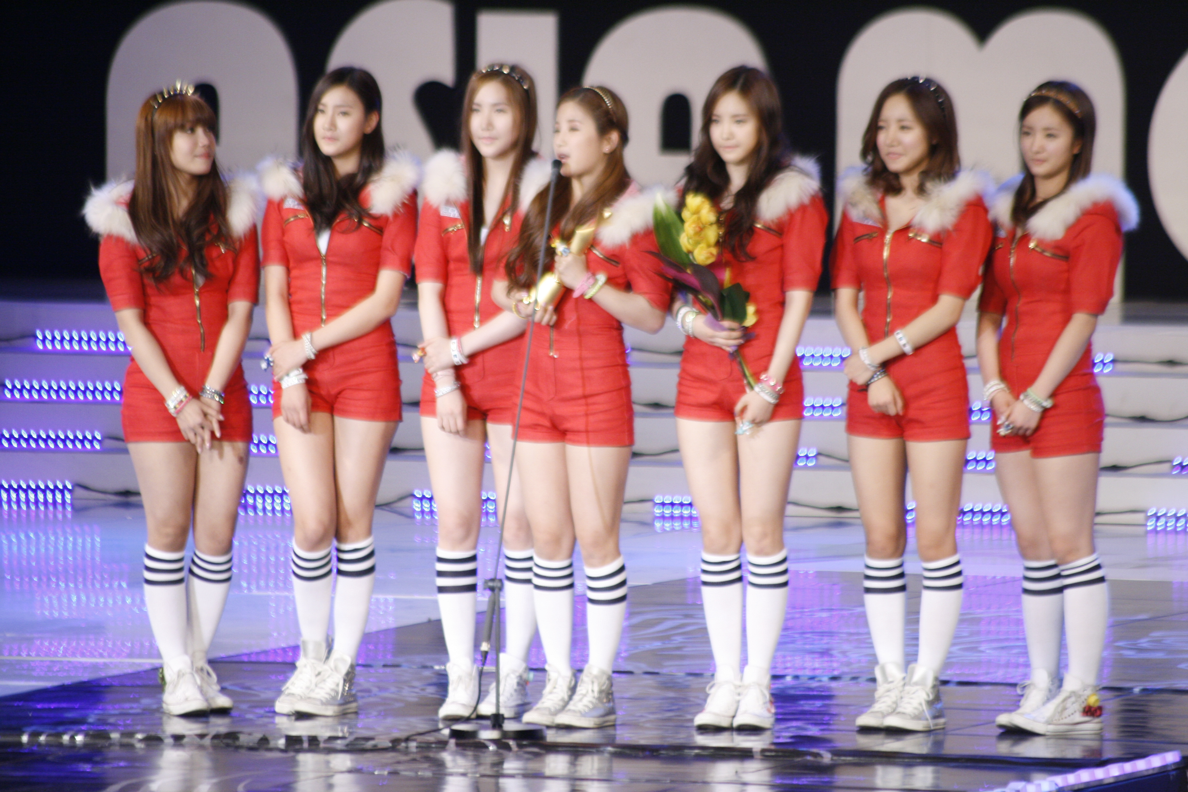 APink in 2012 Asia Model Festival Awards. Left to right: Eunji, Hayoung, Yookyung, Chorong, Naeun, Namjoo, Bomi.